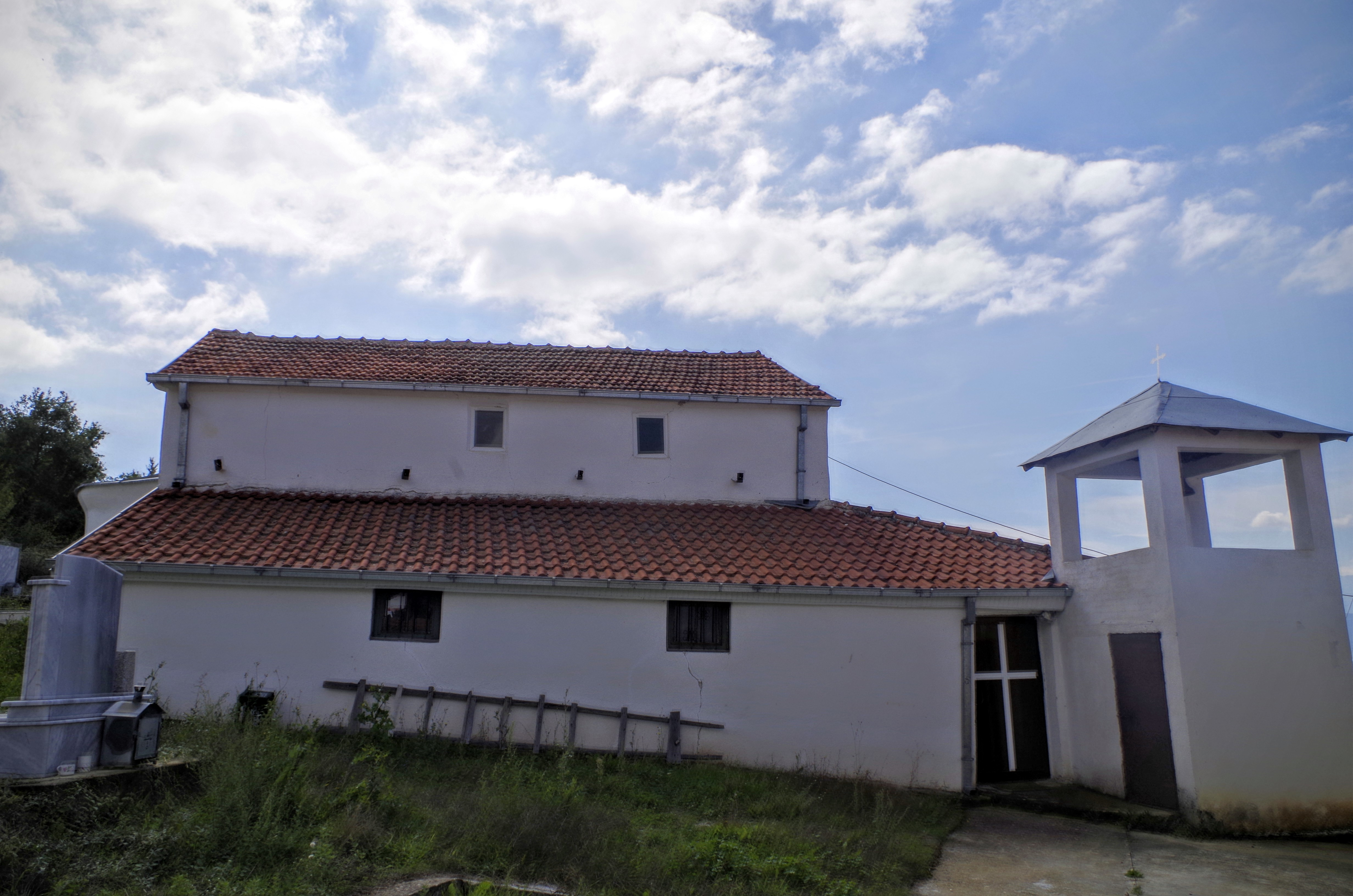 View of the St. Nicholas Church in the village Rajca